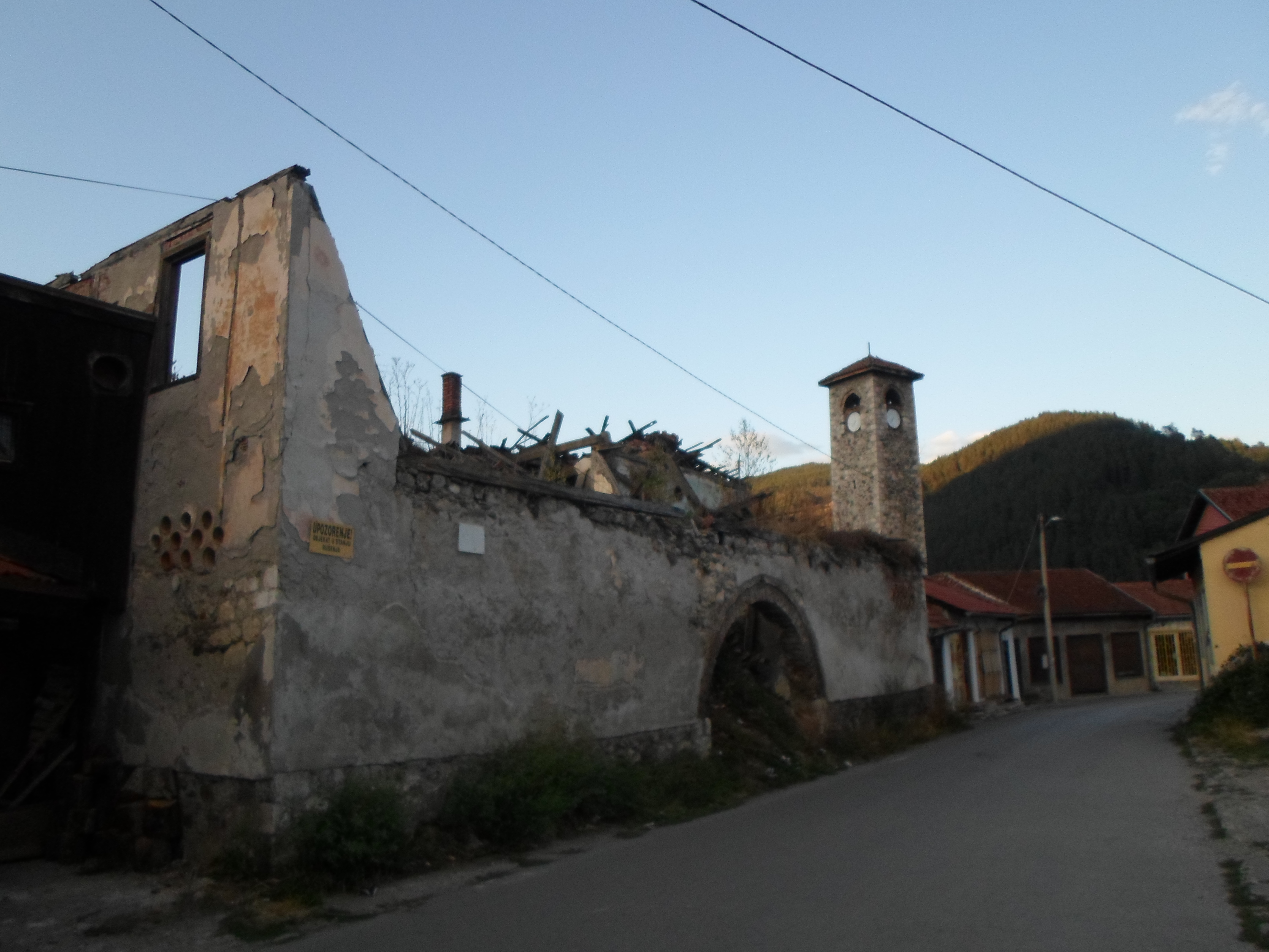 Караван сарај Мехмед-паше Кукавице уз Сахат кулу- Историјски споменик Хан Мехмед-паше Кукавице, Фоча ID добра: NKD712